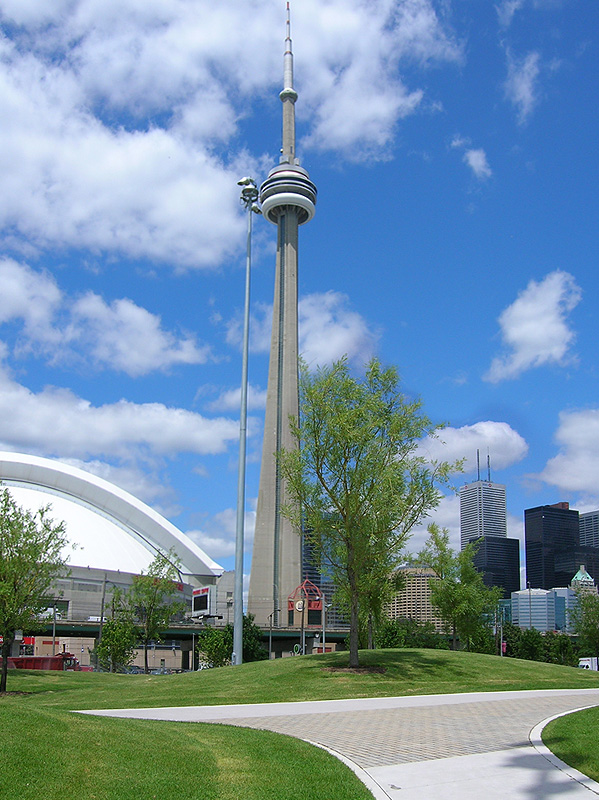 CN Tower viewed from HTO Park in Toronto, Canada.